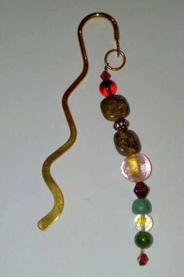 Bookmark made of metal and beads